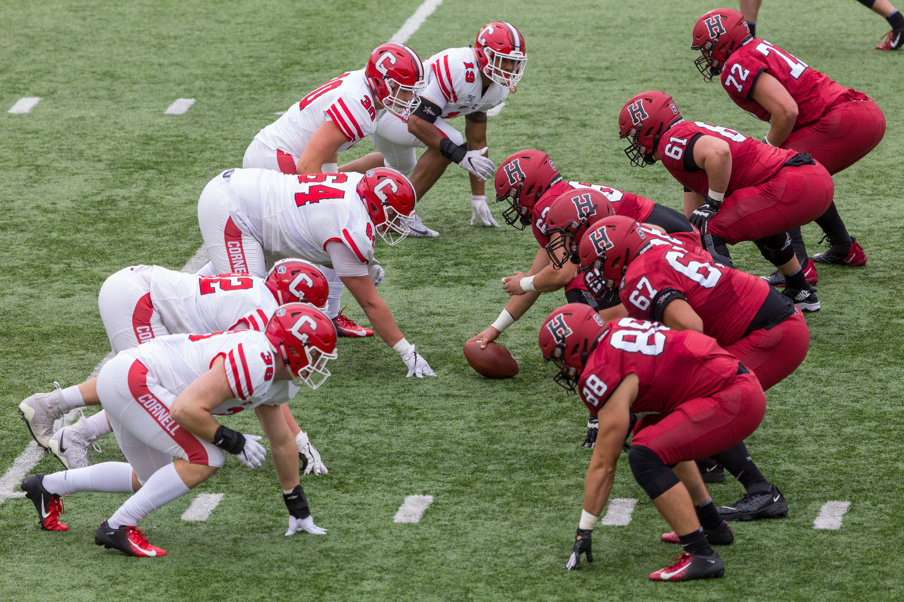 Cornell vs. Harvard football game, October 12, 2019, at Harvard Stadium. Harvard won, 35-22.